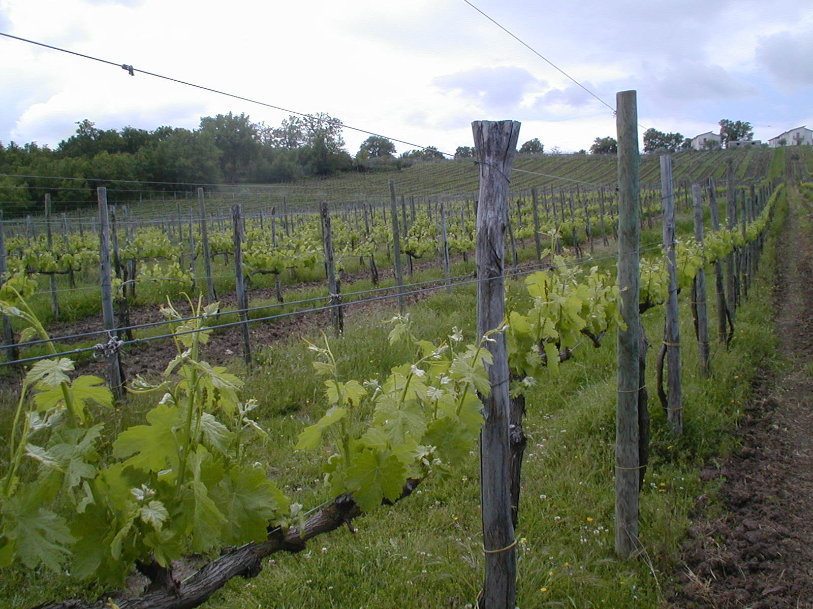 Vines growing in the southern Italian wine region of Campania